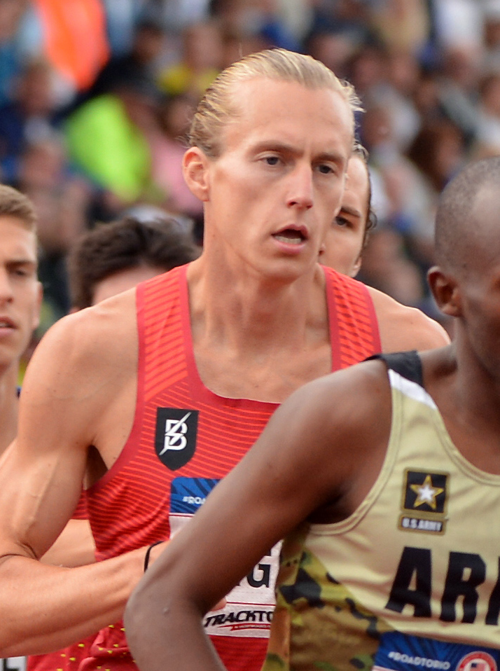 Evan Jager running the 3,000-meter steeplechase at the 2016 U.S. Olympic Track and Field Team Trials at Hayward Field in Eugene, Oregon. U.S. Army photo by Tim Hipps, IMCOM Public Affairs